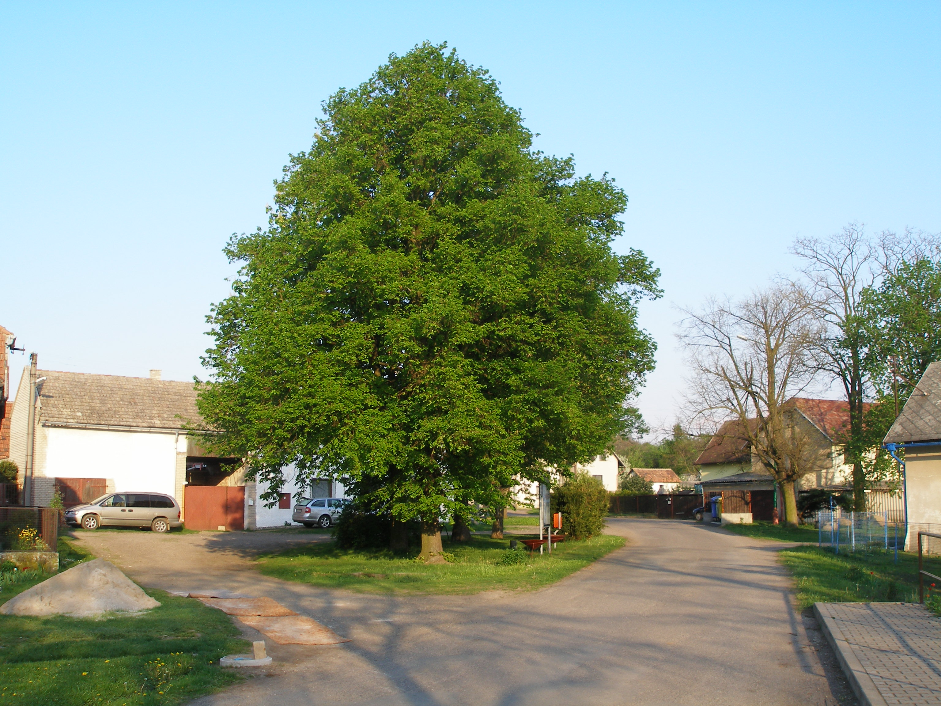 Tree in Jenišovice.